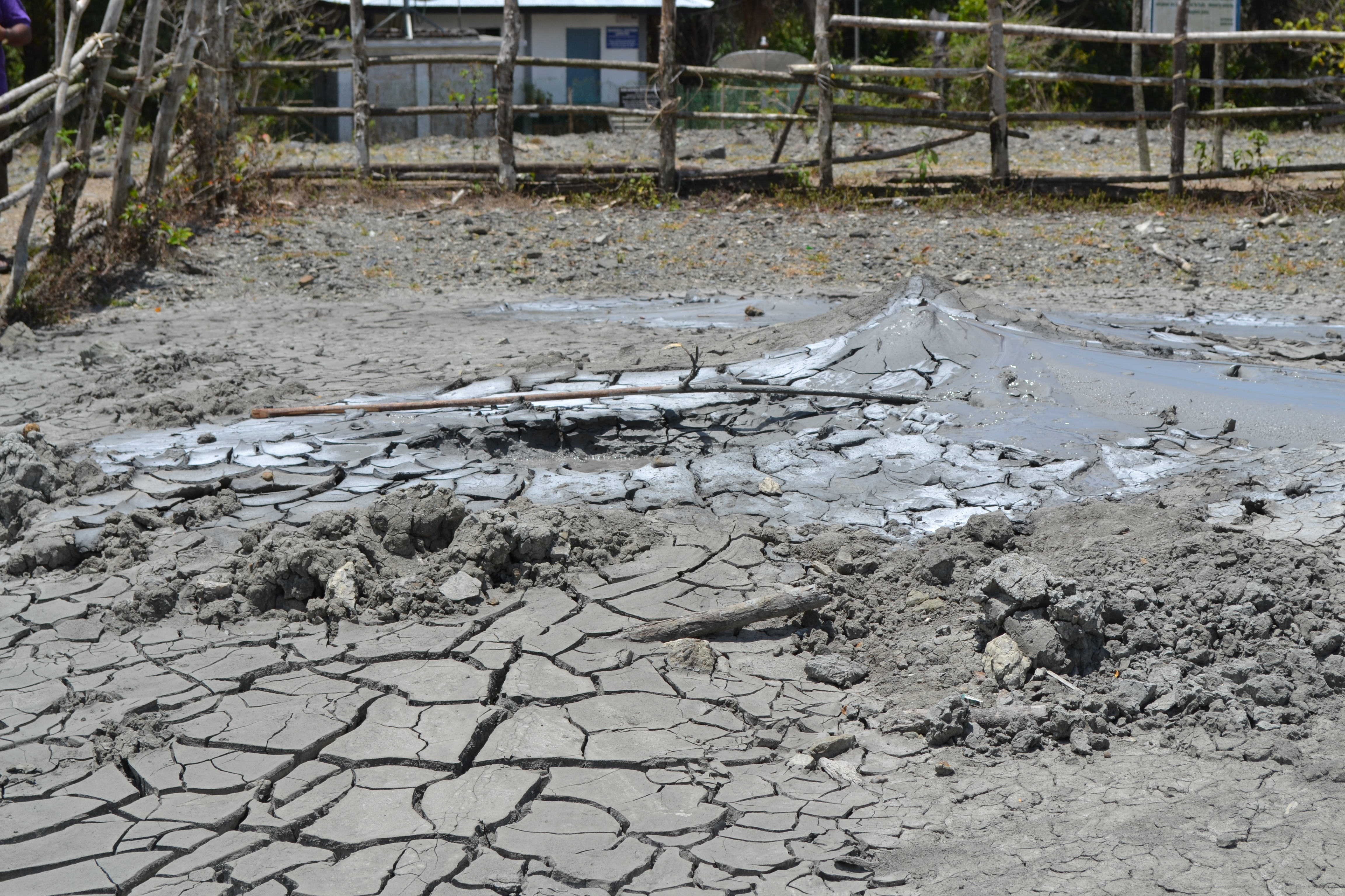 A scene from Mud Volcano at Middle Andaman